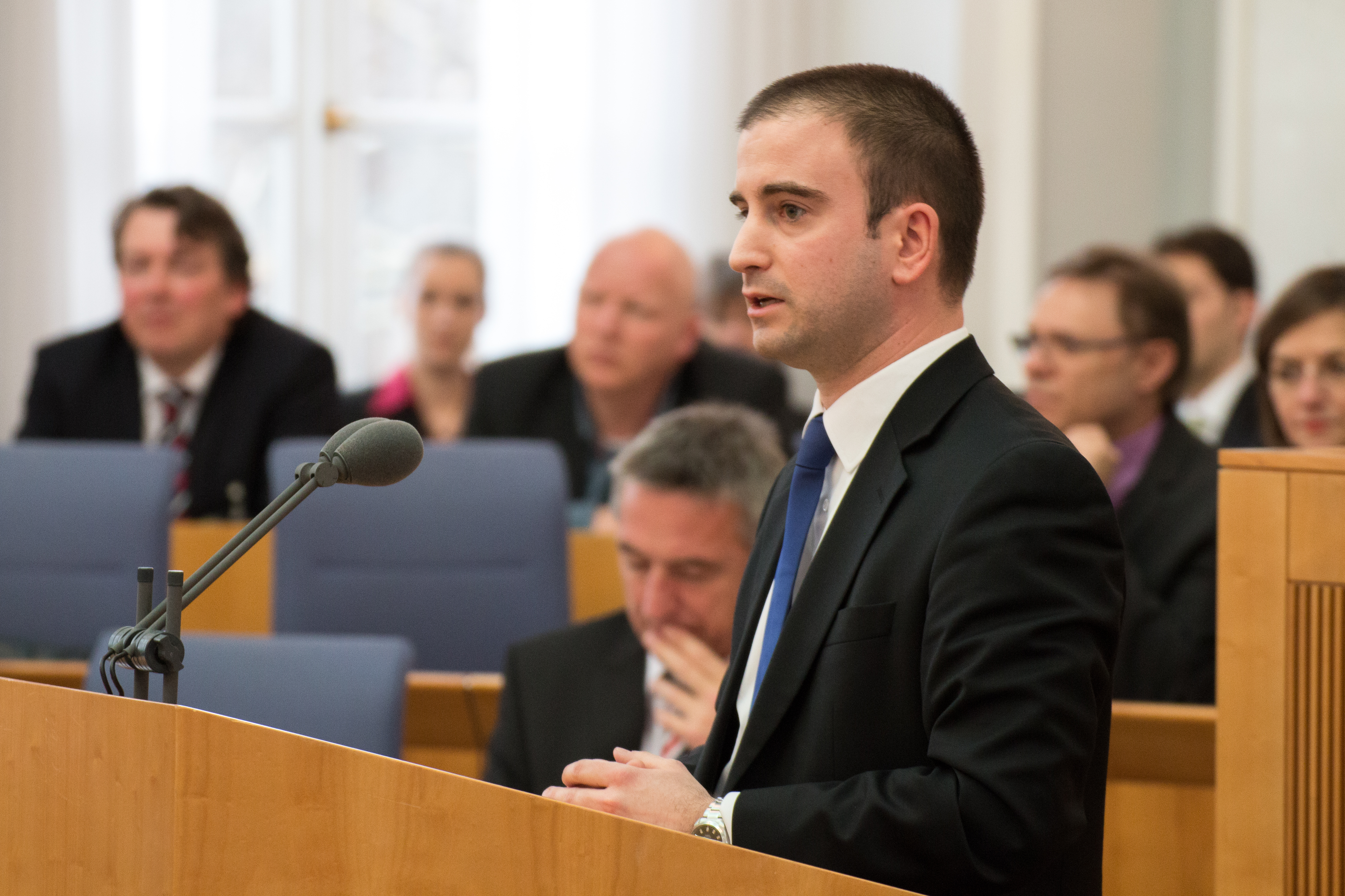 Marcel Hürter, SPD, member of the Landtag of Rhineland-Palatinate